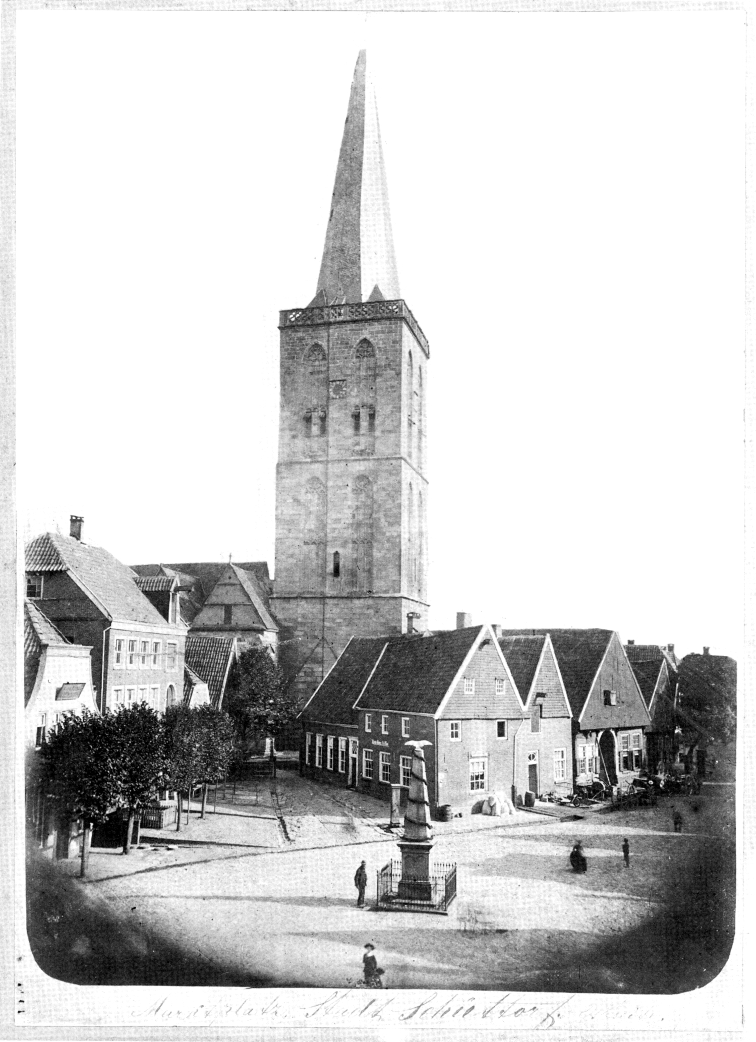 The marketplace of Schüttorf with ev.-ref. Church ca. 1880